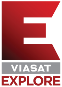 logo